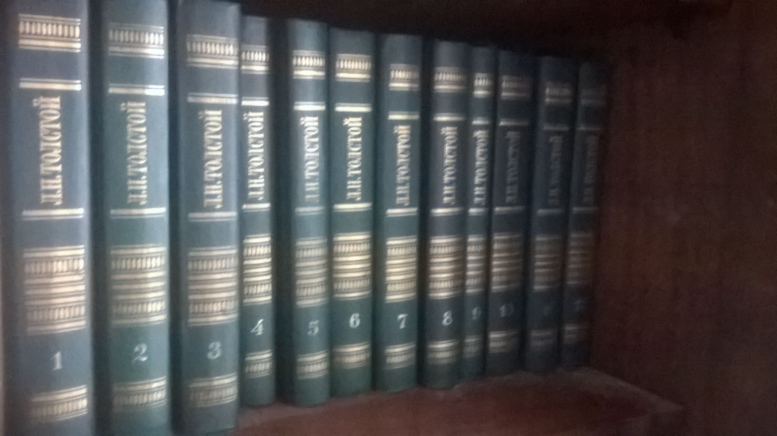 Collected Works by Leo Tolstoy, published in 1987 by "Pravda" publisher.